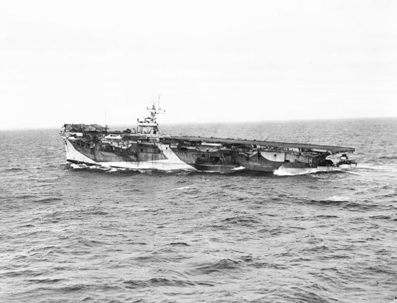 IWM caption : The damaged HMS NABOB proceeding homewards under her own steam, her stern low down in the water. She was hit by a torpedo during an operation in northern waters. Despite her damaged condition, NABOB turned homeward with a skeleton crew and reached her base after sailing 1070 miles at a steady ten knots.